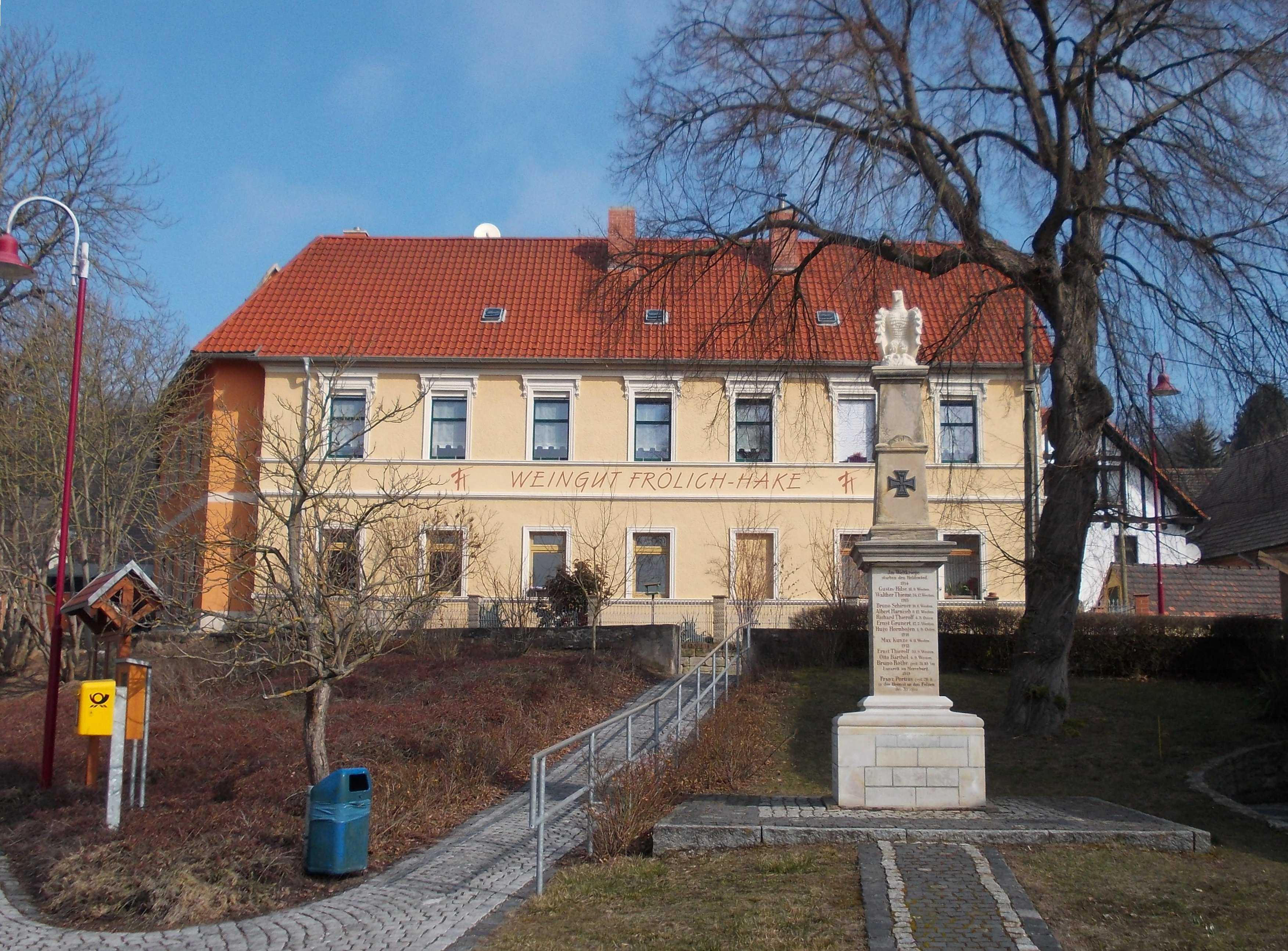 World War I memorial and Frölich-Hake's vineyard in Rossbach (Naumburg, district of Burgenlandkreis, Saxony-Anhalt)